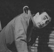 Sergio Malbrán- actor argentino